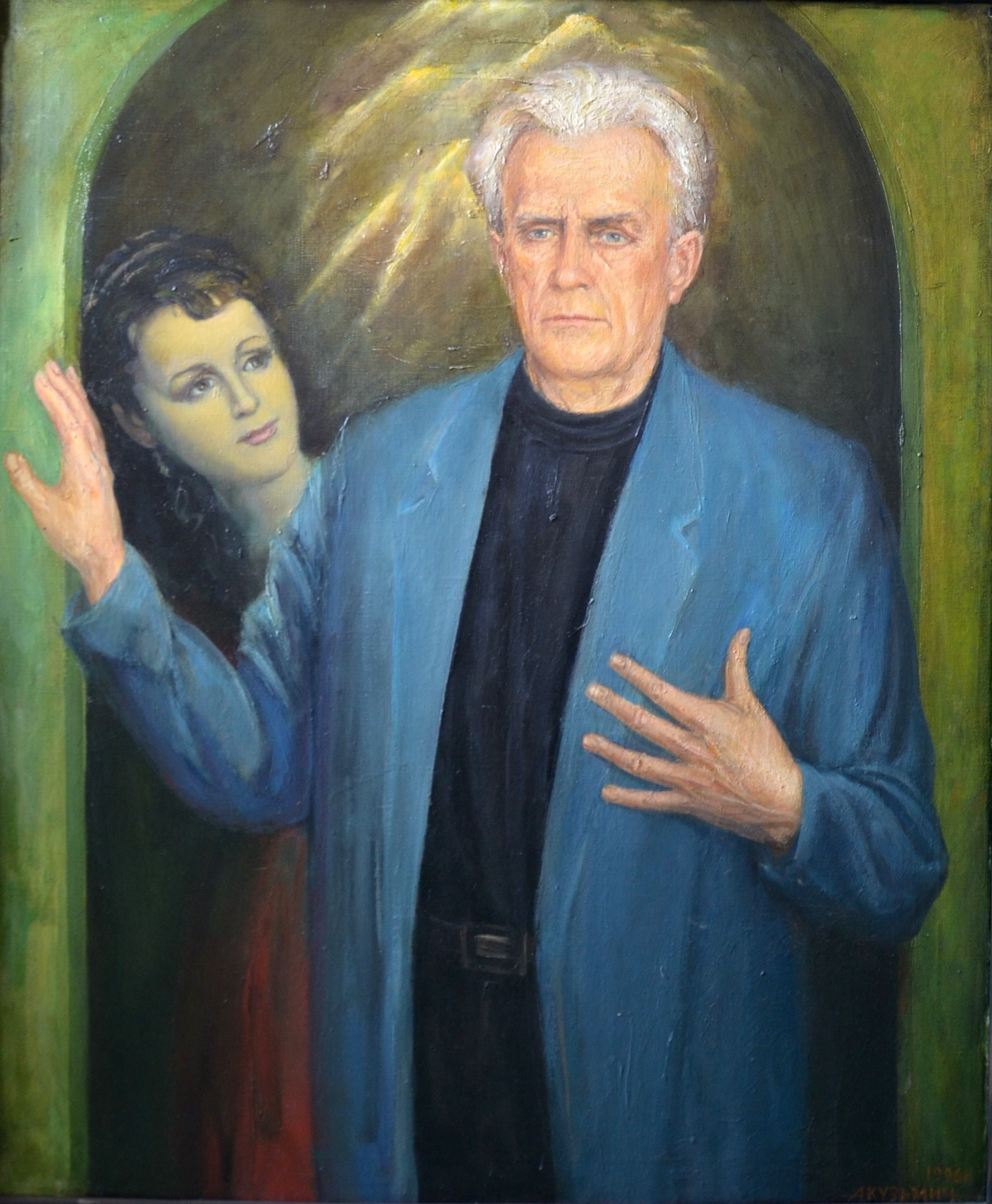 Alexey Kuzmich, Portrait of national actor of USSR Nikolai Eremenko 1996